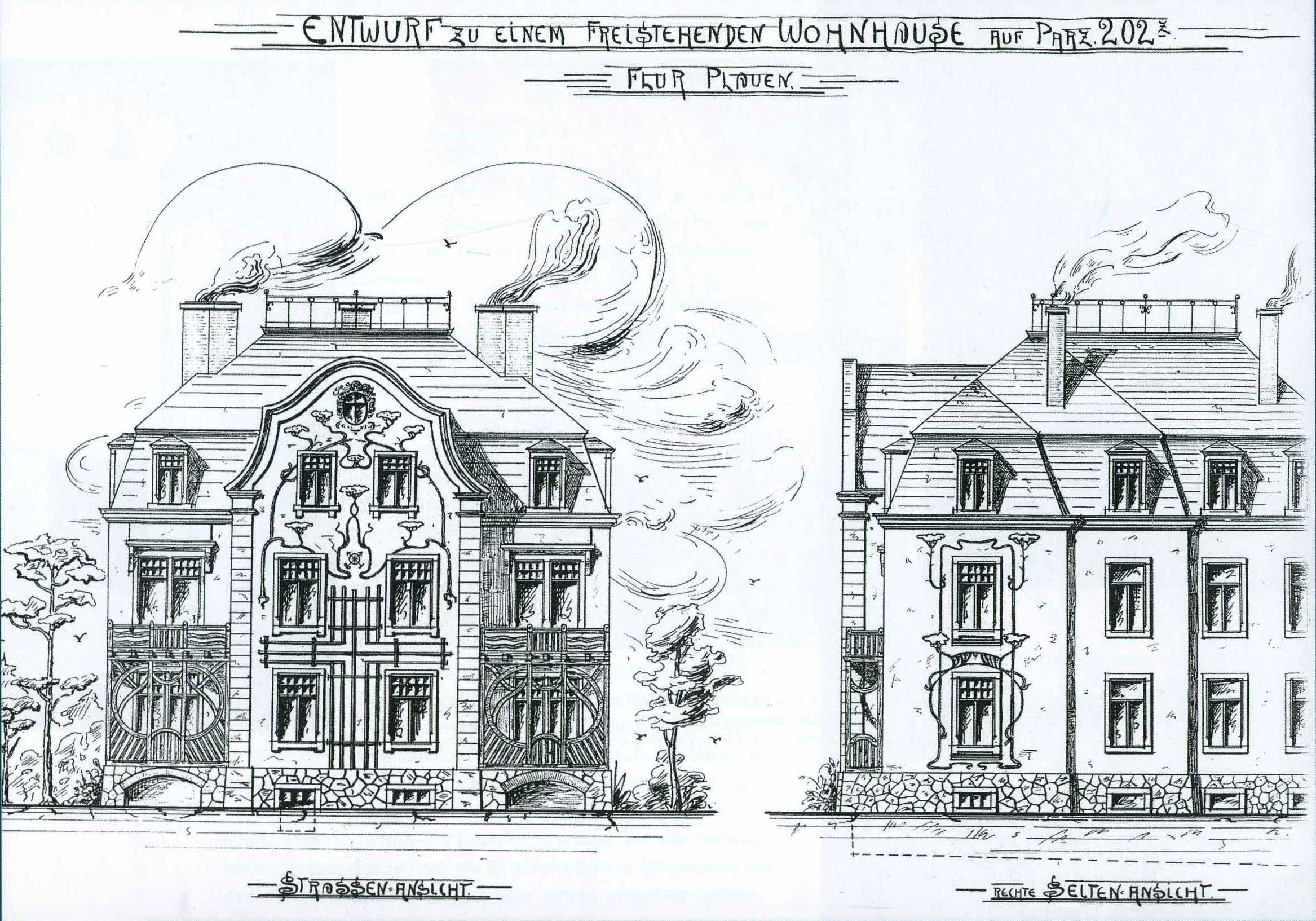 Dresden Halbkreisstraße 12 Aufriss aus der Bauakte 1902